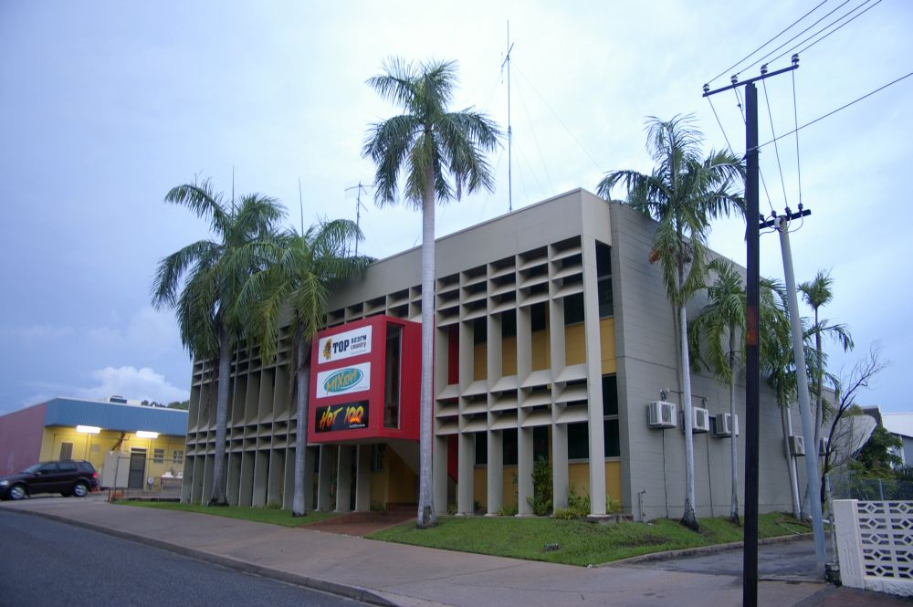 92.3 Top Country, Mix 104.9 and Hot 100 Broadcast Building in Darwin, Northern Territory, Australia.